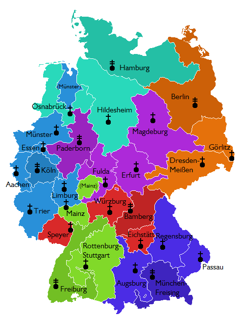 Map of Roman-catholic bishoprics and ecclesiastical provinces in Germany, including sees and names